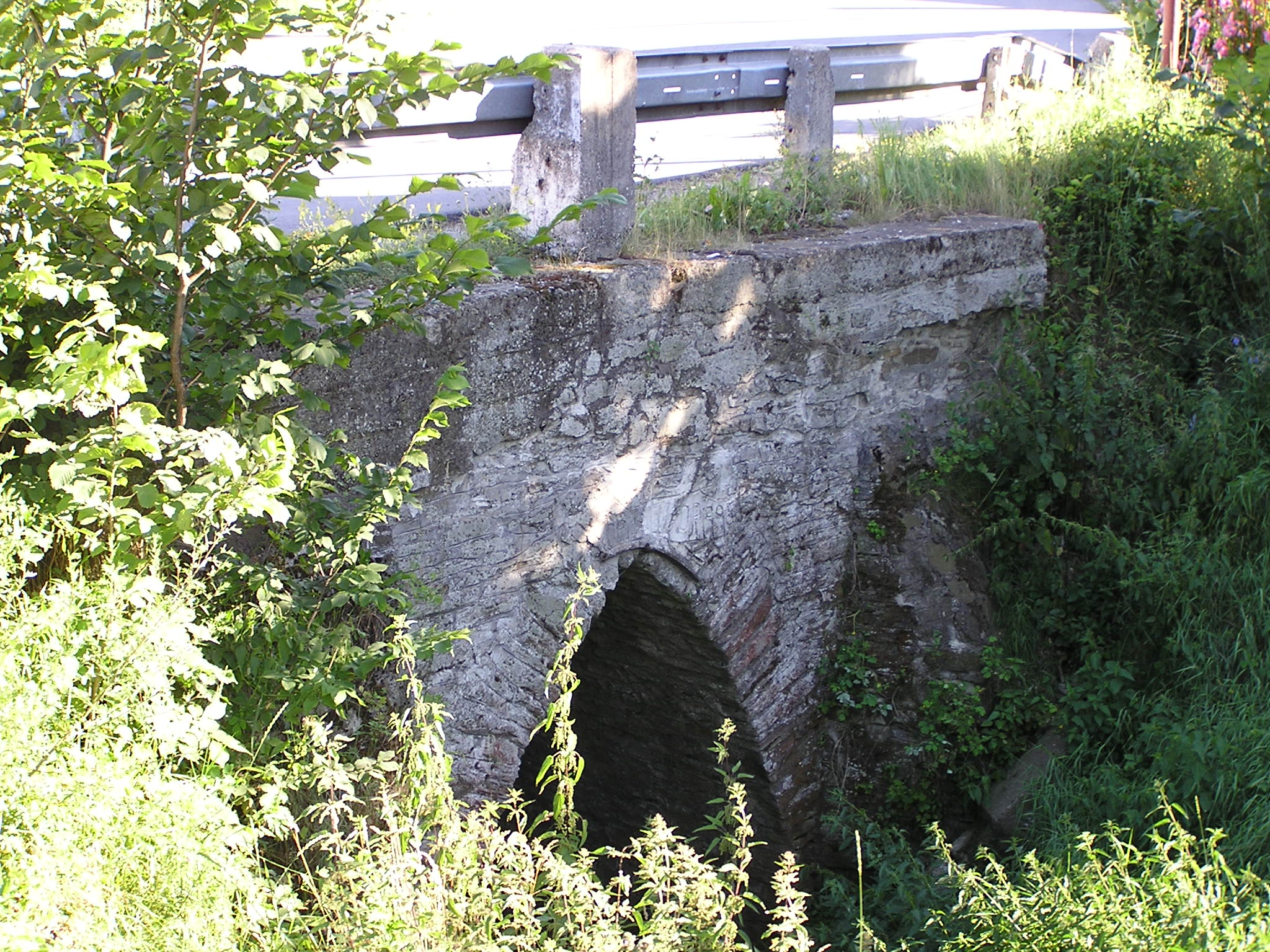 Stone Bridge in Dravce, is one of the oldest preserved Gothic bridges in Slovakia.